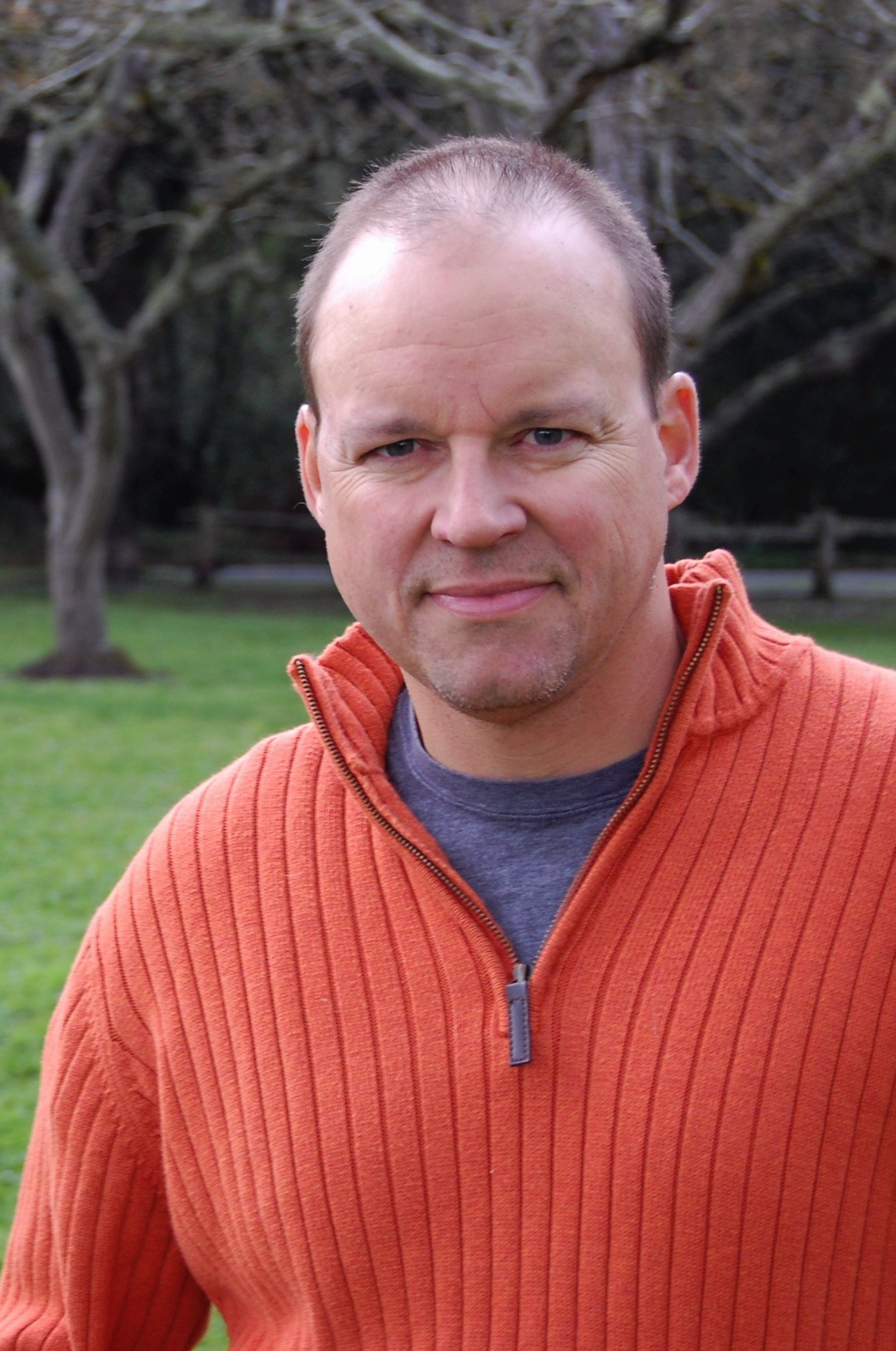 author portrait of Scott Gummer; credit: Ella Gummer (c)2009